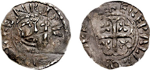 Norman. Henry of Scotland, Earl of Northumberland, son of David I of Scotland. 1139-1152. AR Penny (1.18 gm, 10h). Corbridge mint; (H)erebald, moneyer. +hENRICVS •[F RE?], crowned bust right, sceptre before +EREBALD: ON [C]OREB:, cross moline with fleur in each angle within tressure. Mack, "Stephen and the Anarchy 1135-1154," BNJ XXXV (1966), 283 (same obverse die); Boon 12; SCBI 48 (Northern Museums), 1360; North 912; SCBC 1309. Good VF, creased flan, dark toning. Extremely rare coin of the Anarchy. "When Henry I died in 1135 he desired his daughter Matilda (or Maud), married to the Holy Roman Emperor Henry V, to succeed him. But Henry's nephew Stephen of Blois, Count of Boulogne, was the quickest to react to news of the king's death and crossed the Channel to claim the throne. Matilda rallied her own supporters and landed in England in 1139, sparking a 15 year civil war, the Period of Anarchy. During this period many of the contesting nobles struck coins in their own names. Matilda's uncle, king David of Scotland, invaded northern England in her support, but was defeated by Stephen at the 'Battle of the Standard" in 1138. To avert further hostilities, Stephen agreed to name David's son Henry Earl of Northumberland, and left the north under nominal Scottish control. Stephen was captured in 1141, but his supporters continued the conflict. In 1153 when Eustace, Stephen's son and heir designate, died, the two sides reached an agreement to end the conflict. Stephen would retain his kingdom for life and in return adopt Matilda's son, Henry Plantagenet, as the new heir."